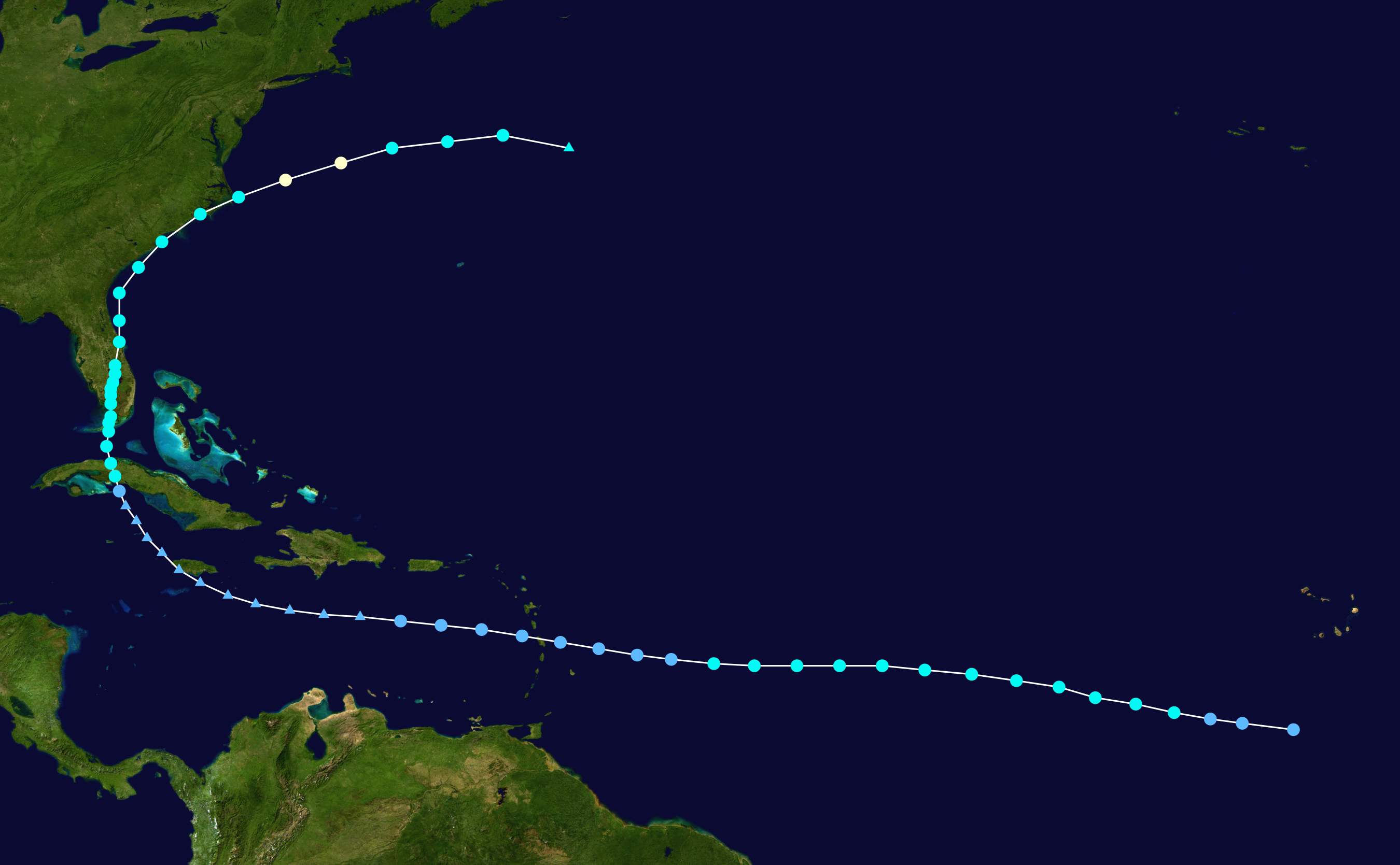 Hurricane Dennis (1981) track. Uses the color scheme from the Saffir-Simpson Hurricane Scale.